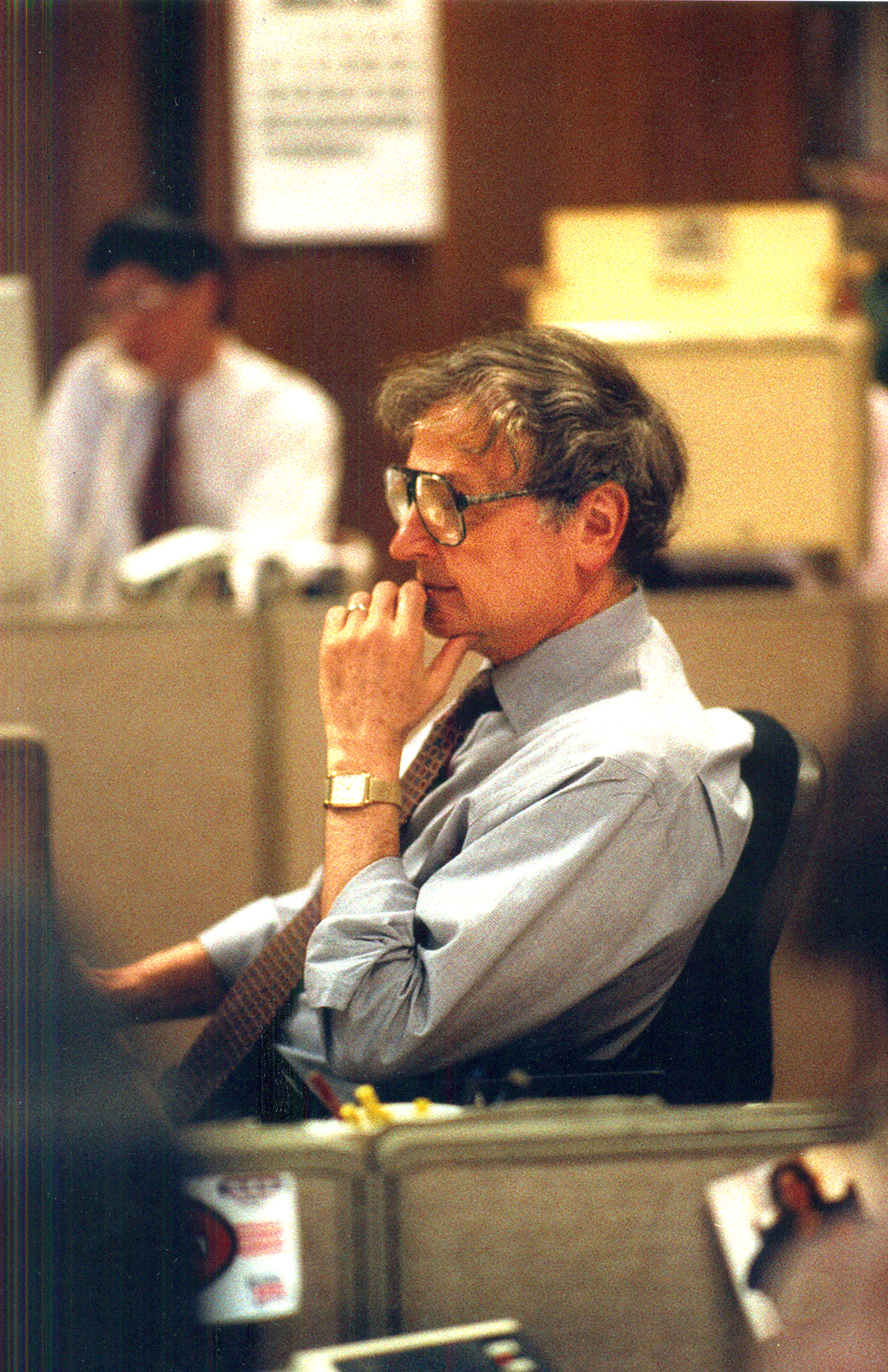 JACK BREIBART, Page 1 Editor, San Francisco Chronicle in the newsroom, 1994. Photo by Nancy Wong